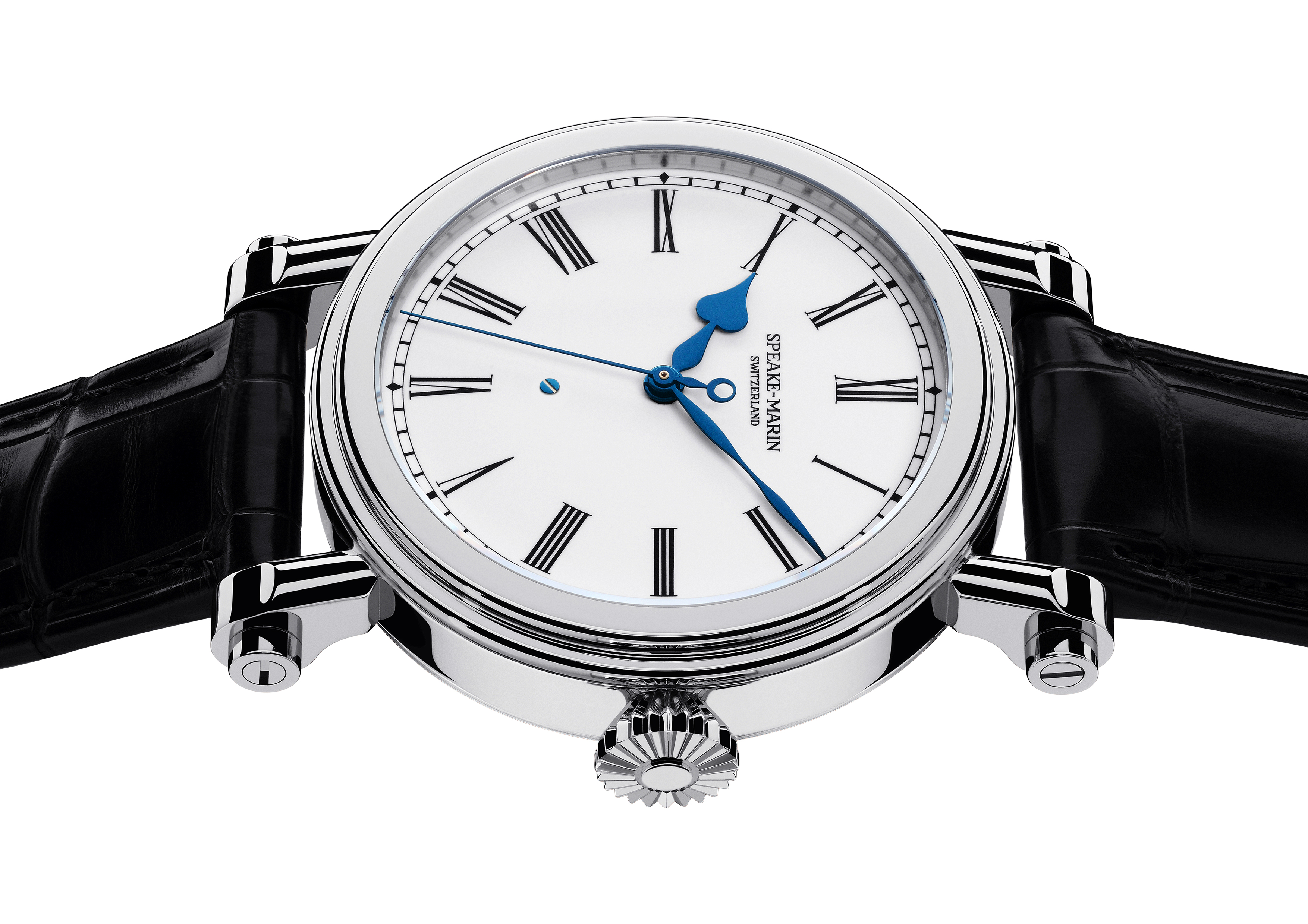 Resilience by Speake Marin featuring oven-fired enamel dial and blued-steel hands. For more information, please visit